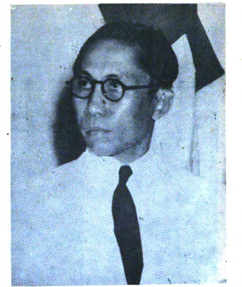 Bahder Djohan as the Minister of Education and Culture in the Natsir Cabinet.